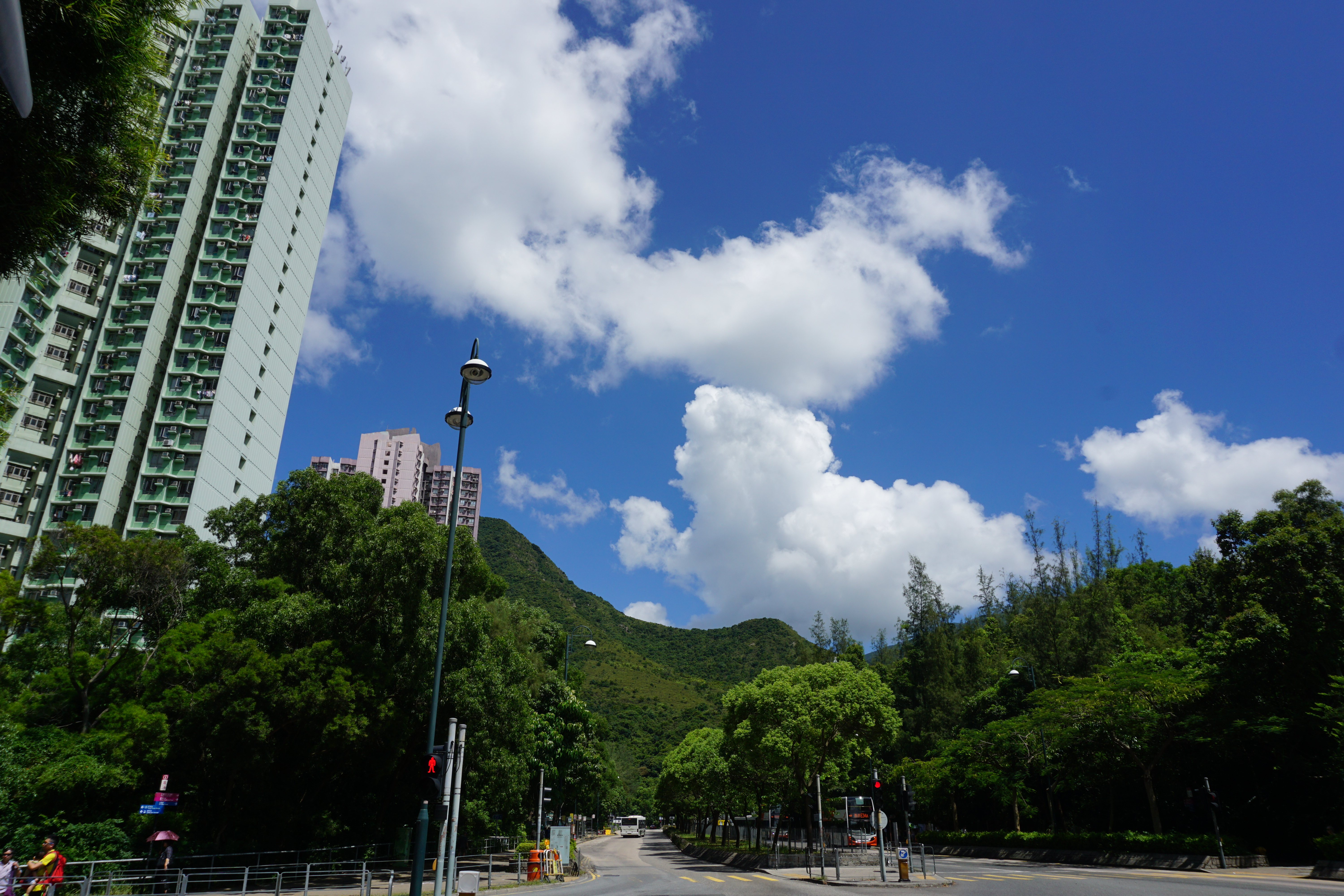 Shun Tung Road in Tung Chung, Hong Kong.